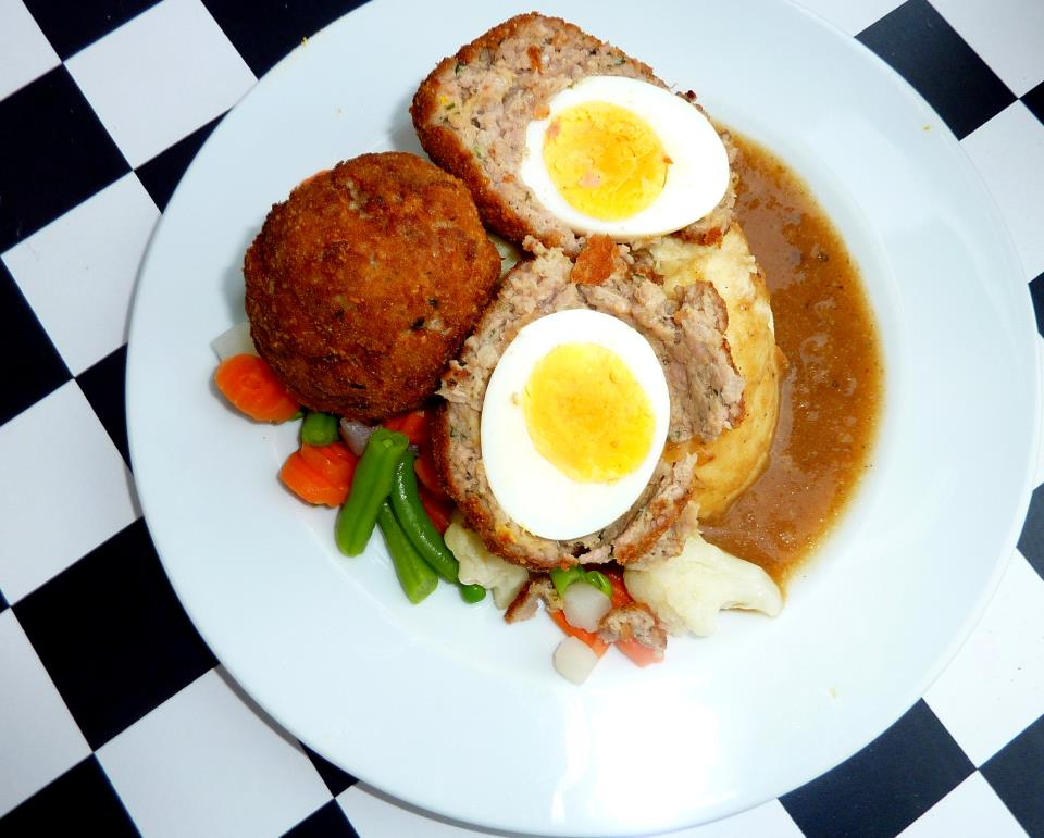 Picture taken at Caféteria Corbaci, Vienna